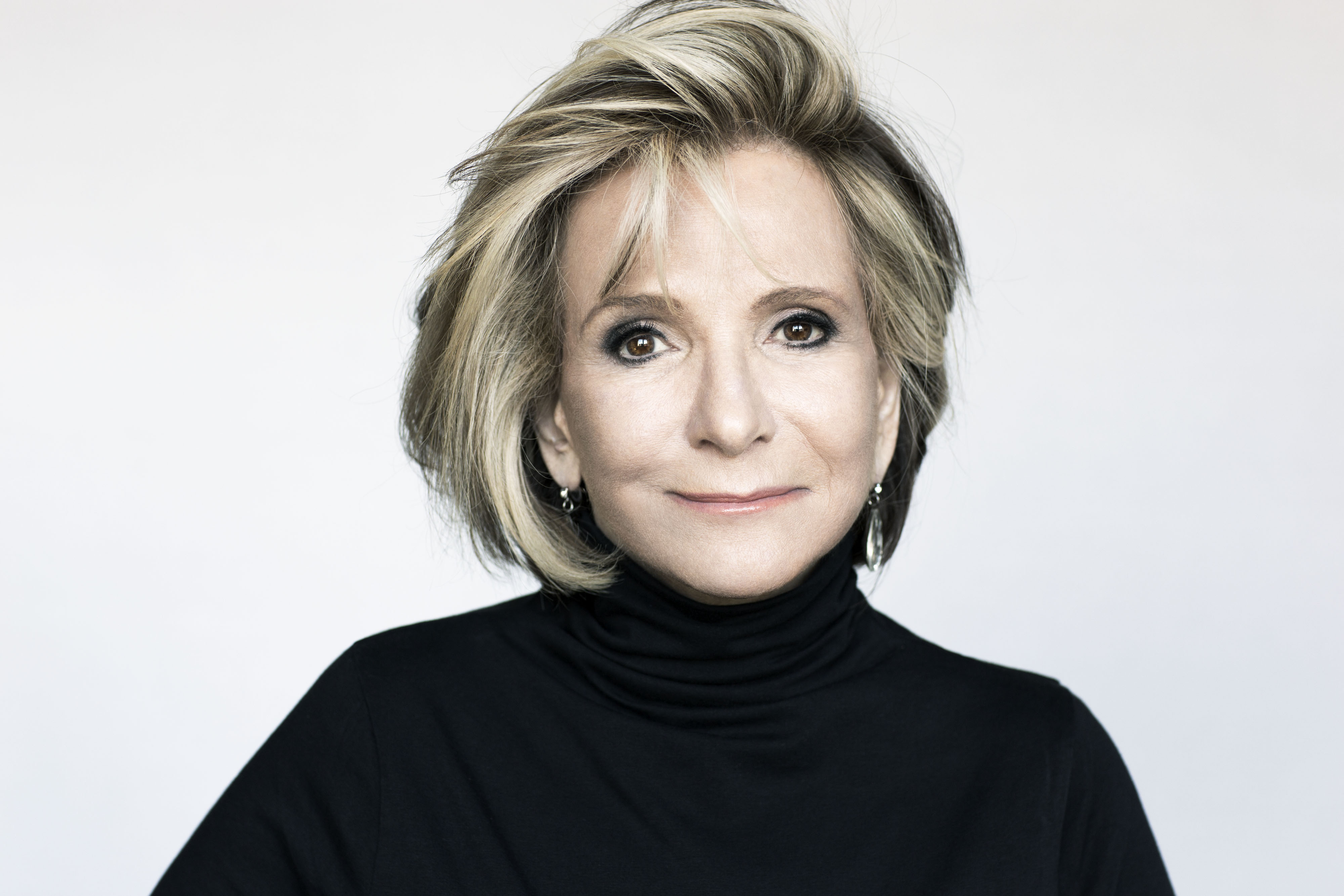 Sheila Nevins Headshot 2016. Photograph by Brigitte Lacombe.